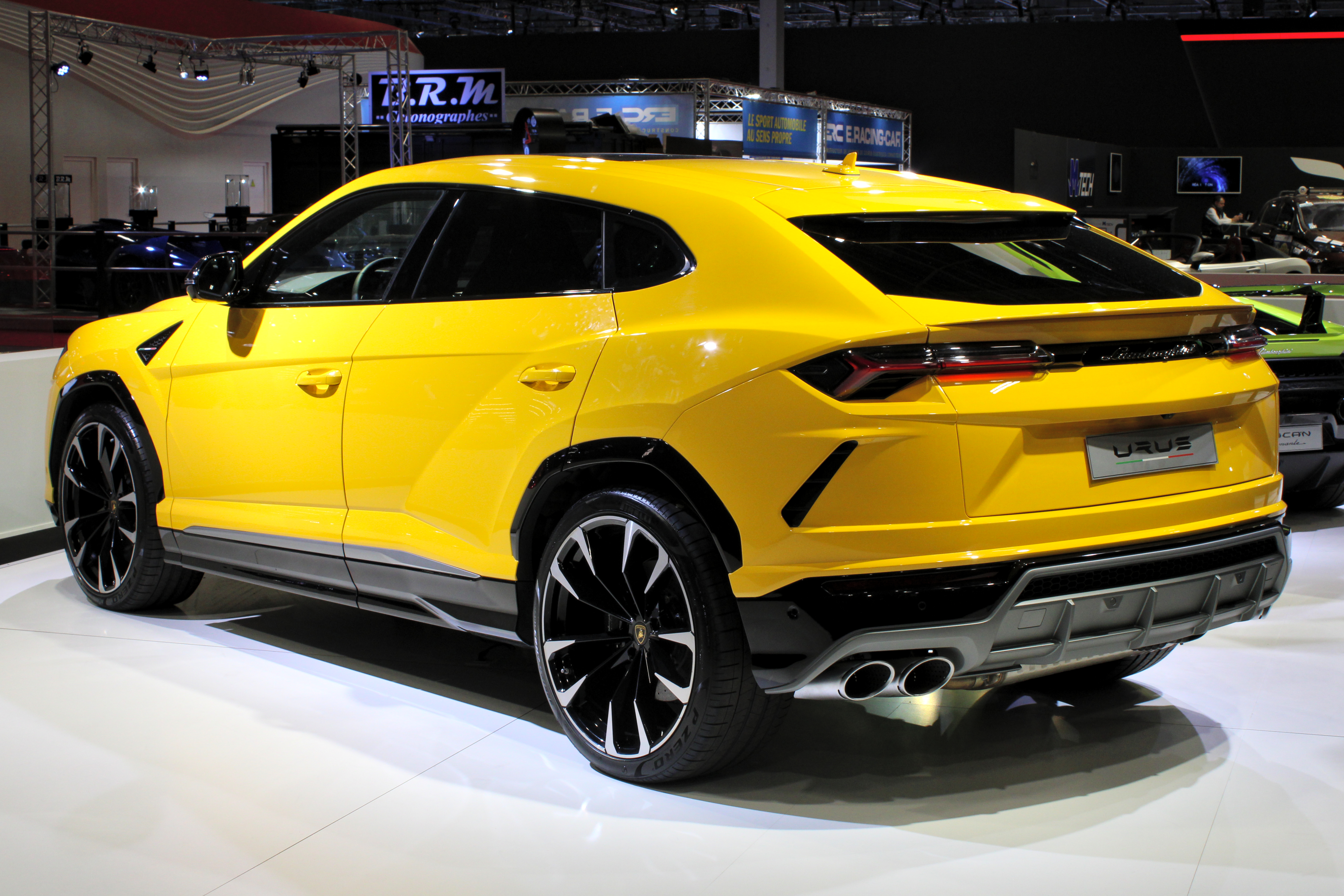 Lamborghini Urus at Paris Motor Show 2018